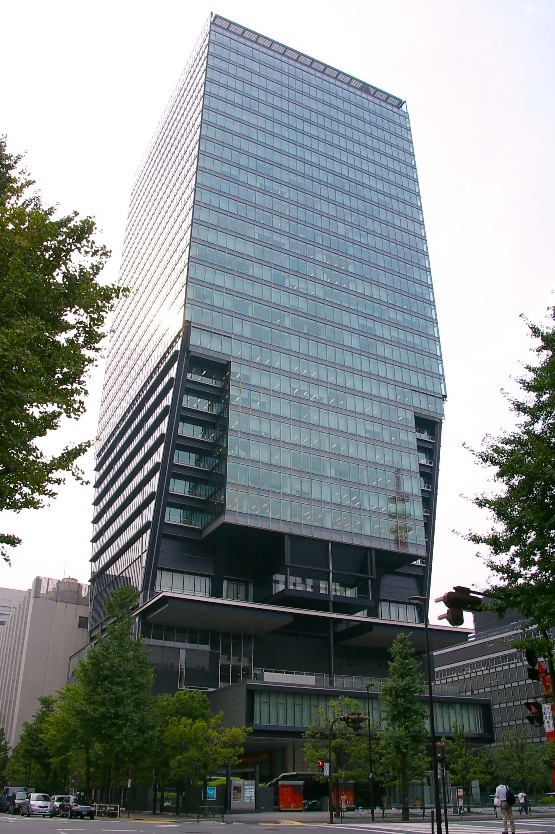 Photograph of Tokyo Sankei Building, headquarters of Sankei Shimbun, in Chiyoda-ku, Tokyo, Japan.